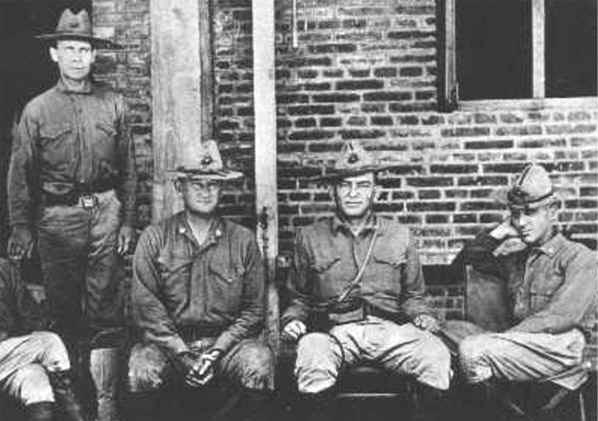 Marine Officers, Vera Cruz, Mexico, 1914. Note: A picture of four legendary Marines and Medal of Honor winners: Sergeant Major John Henry Quick, Major General Wendell Cushing Neville, Lieutenant General John Archer Lejune, Major General Smedley Darlington Butler. From the Smedley D. Butler Collection (COLL/3124) at the Marine Corps Archives and Special Collections.